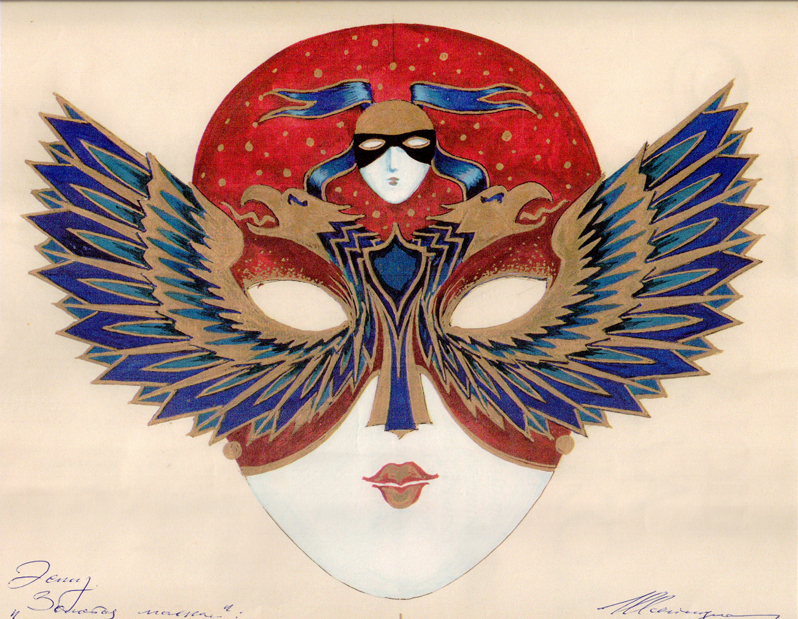 Sketch "Golden Mask Award"